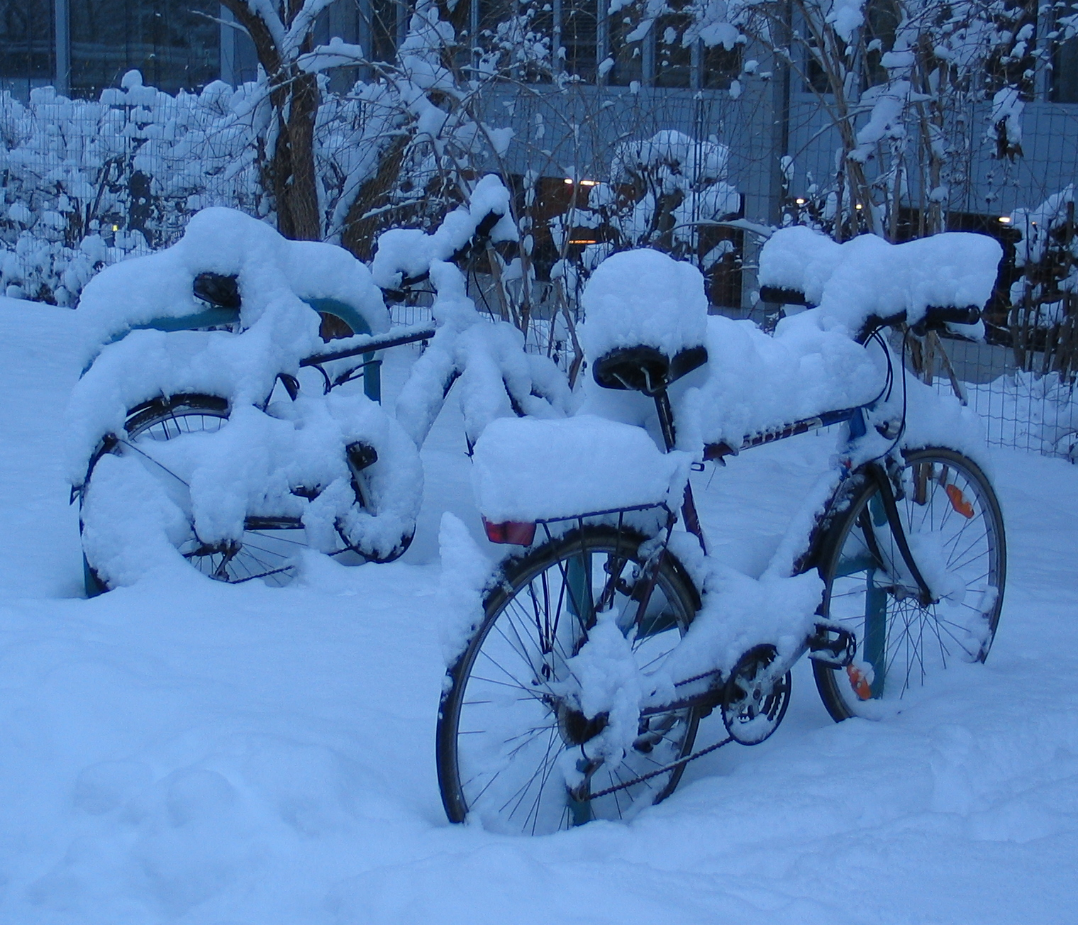 Bicycles in the snow near the campus of the University of Graz, Austria, at dawn on 27 Dec 2005. Picture taken and uploaded by Dr. Marcus Gossler. This is the original version displaying the impression of dark at daybreak - please do not replace the picture by edited versions, but use different filenames. changed version